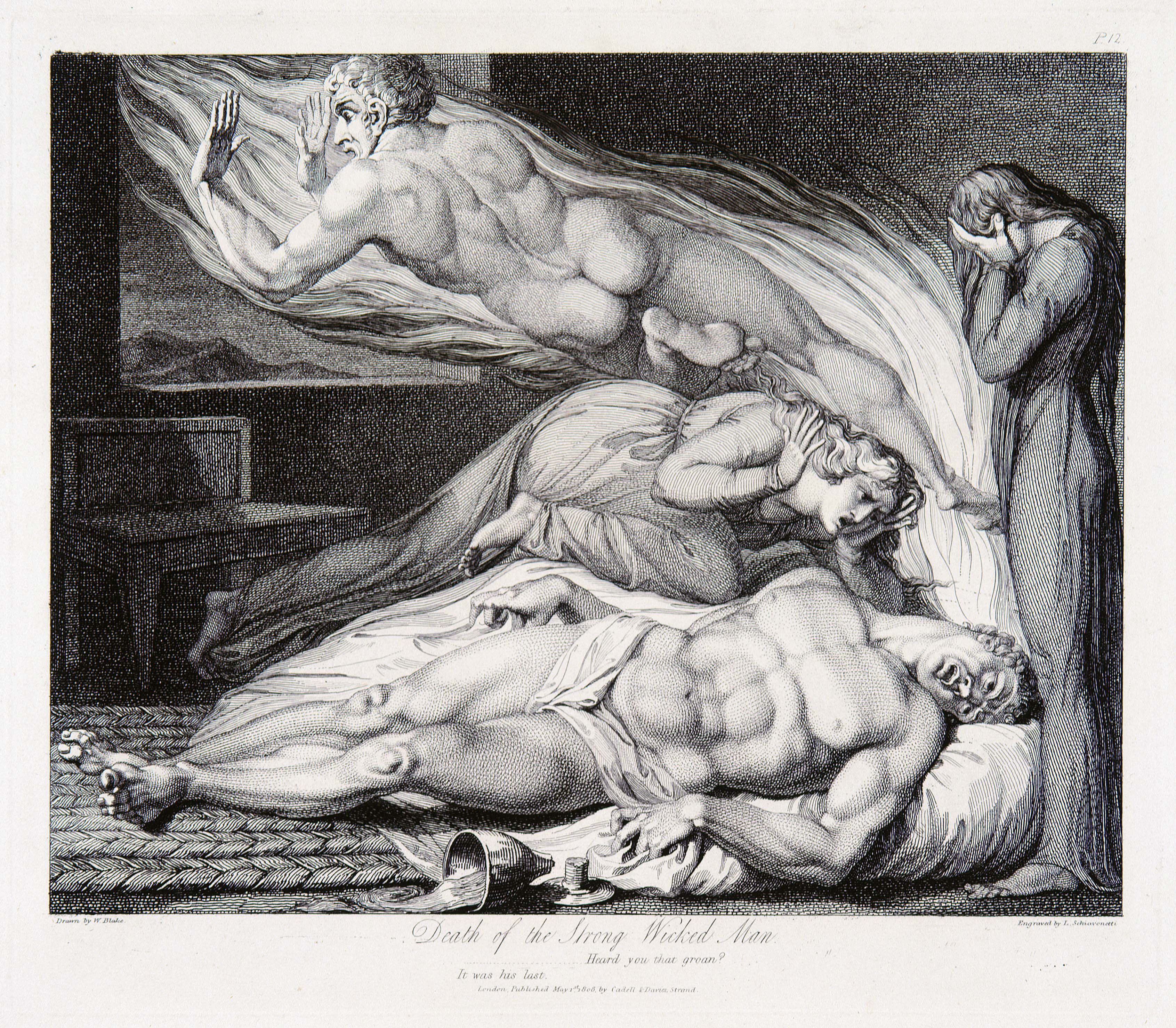 Robert Blair, The Grave, object 6 (Bentley 435.5) Death of the Strong Wicked Man